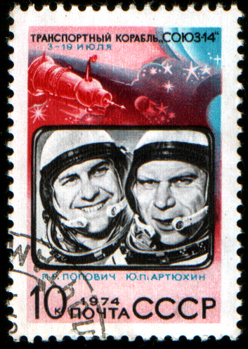 USSR stamp, "Soyuz-14", 1974, 10k.